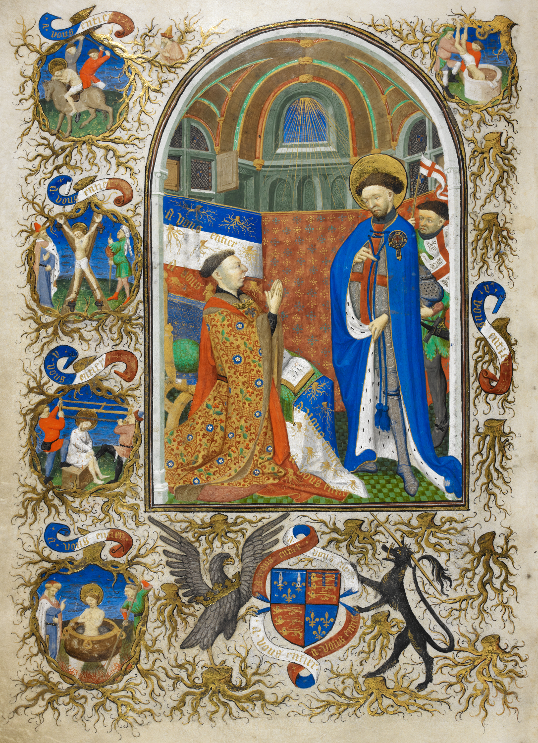 John of Lancaster, 1st Duke of Bedford (1389-1435), Knight of the Garter, third surviving son of King Henry IV, depicted praying before St George. The saint is dressed in full armour over which he wears a blue mantle on the left shoulder of which is affixed the symbol of the Order of the Garter, dedicated to St George, founded by King Edward III in 1348. From BL Add MS 18850, f. 256v (the "Bedford Hours"), c.1410-30. Held and digitised by the British Library.